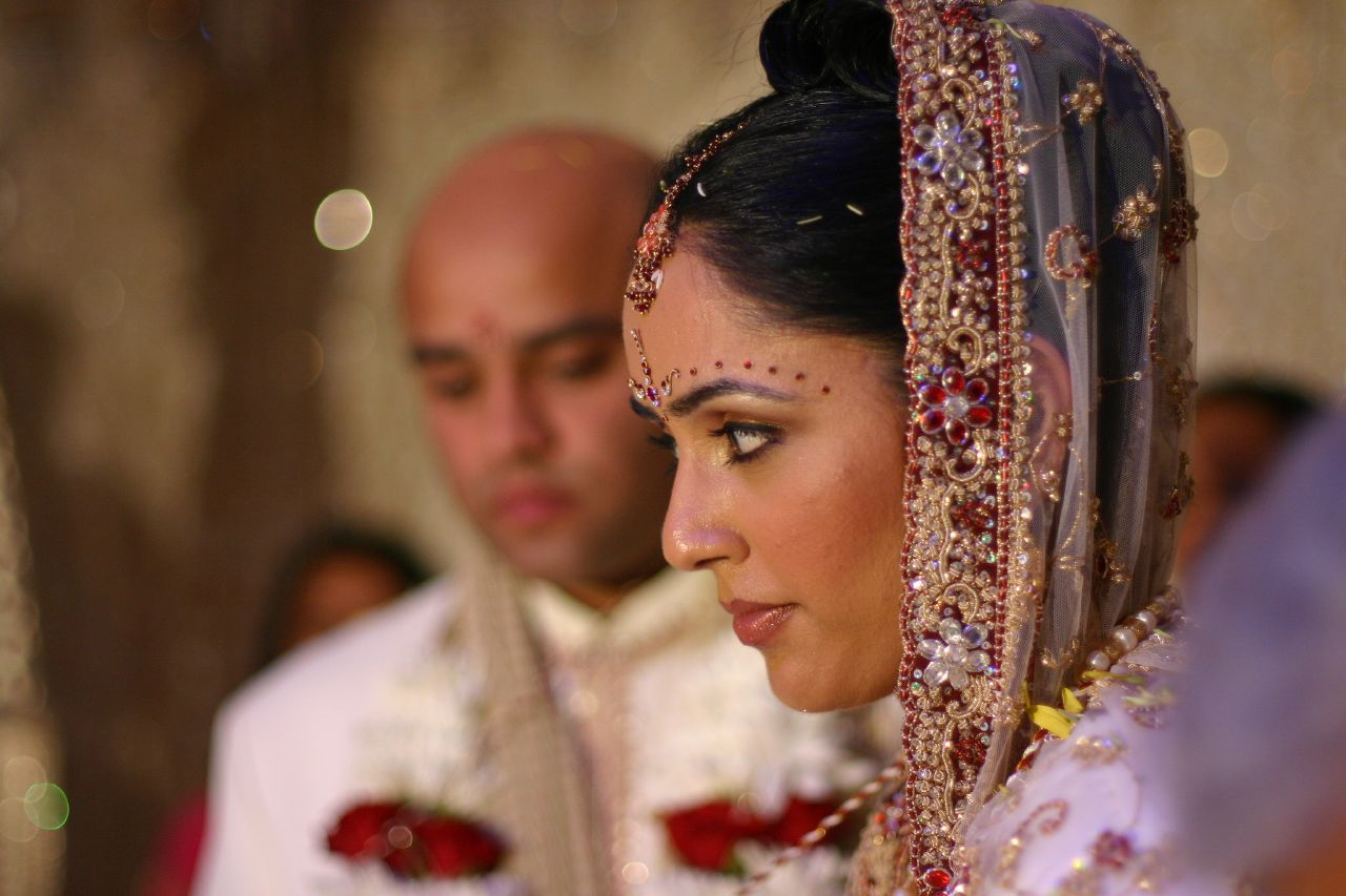 A Hindu bride during traditional wedding ceremony